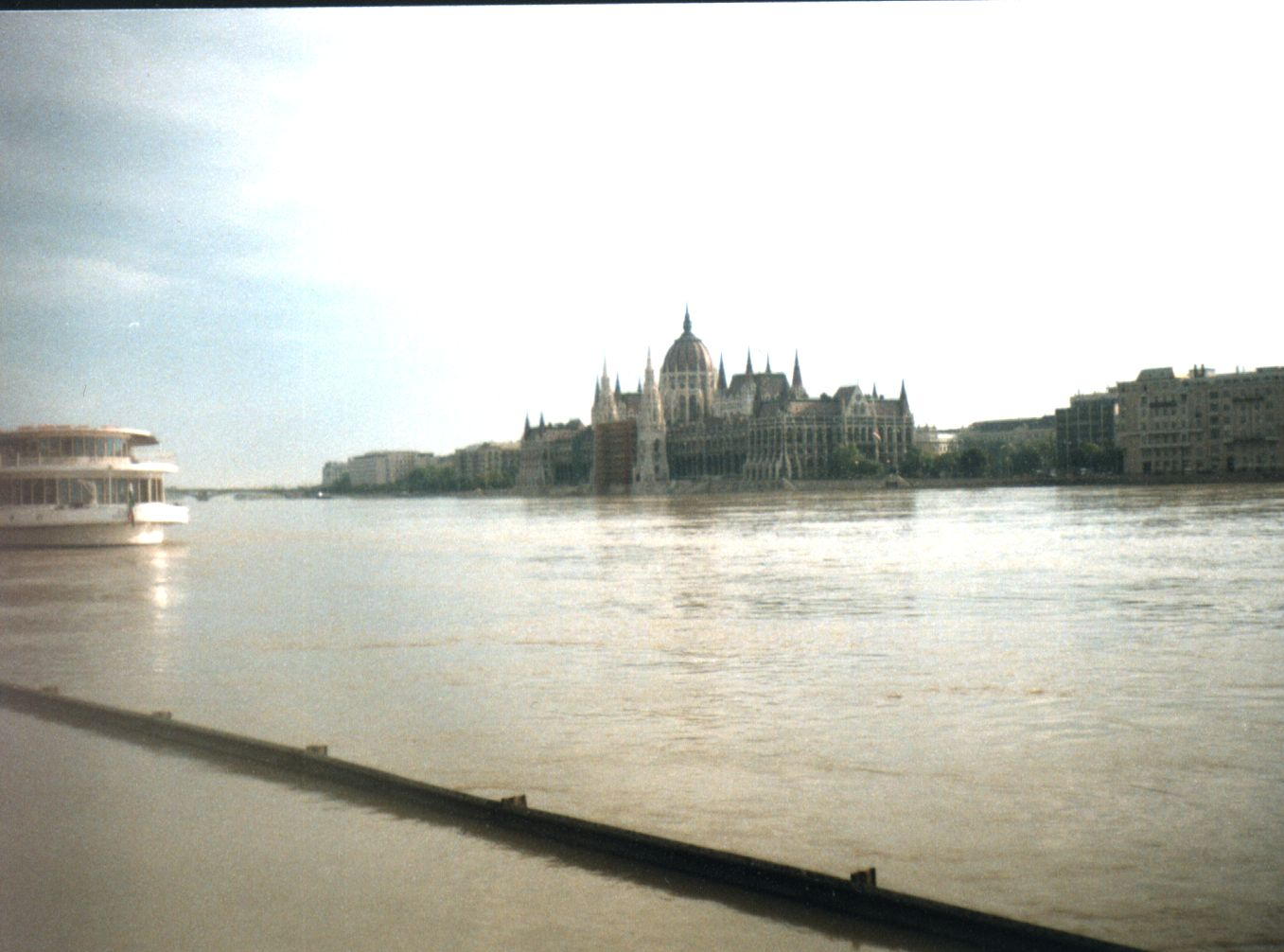 Budapest-Hungarian Parlament And Dunau Flood 2002